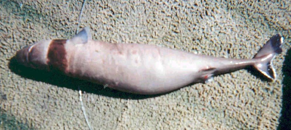 Cookiecutter shark (Isistius brasiliensis)